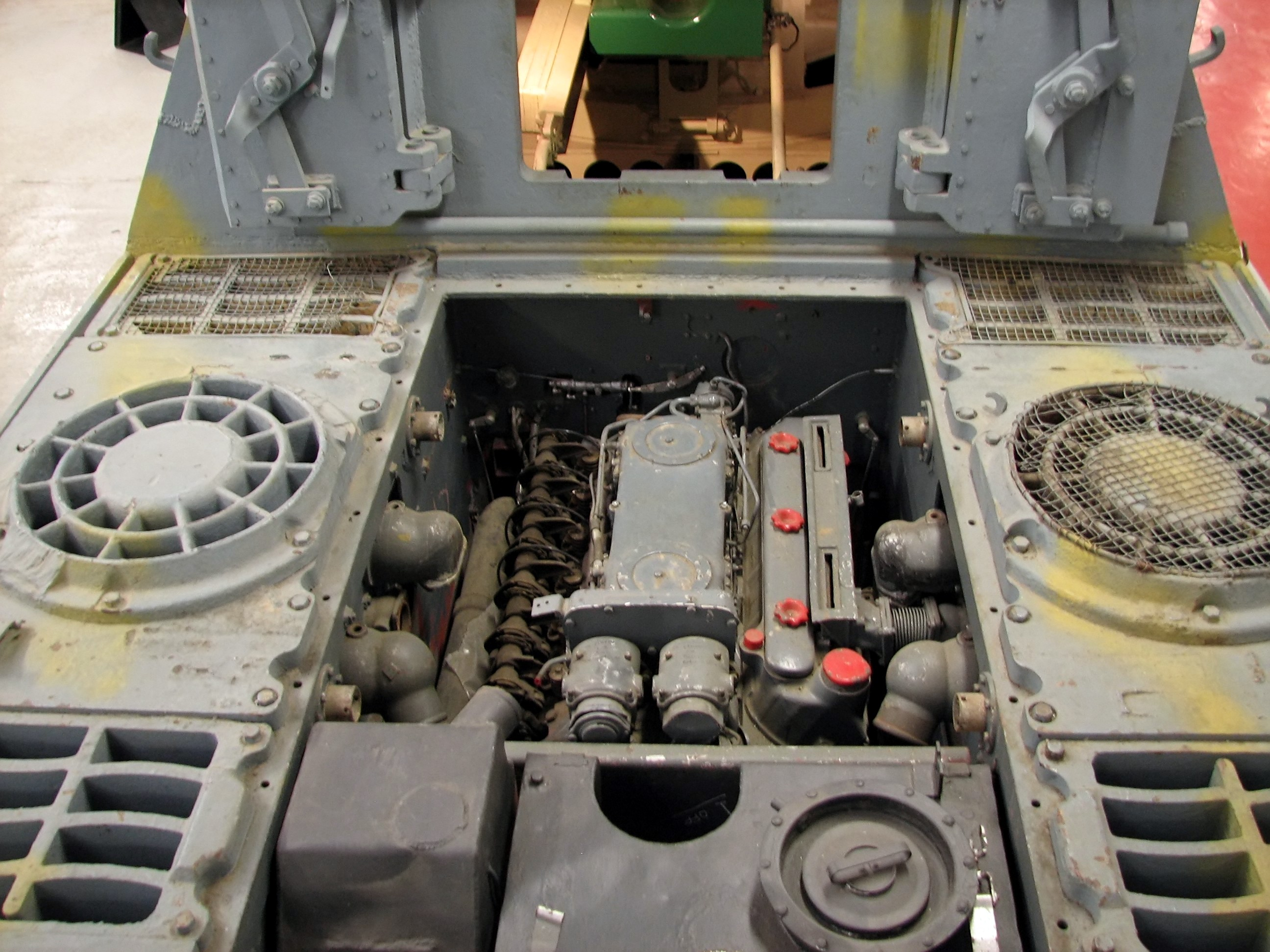 View of the engine bay and rear deck of a Jagdtiger at Bovington Tank Museum